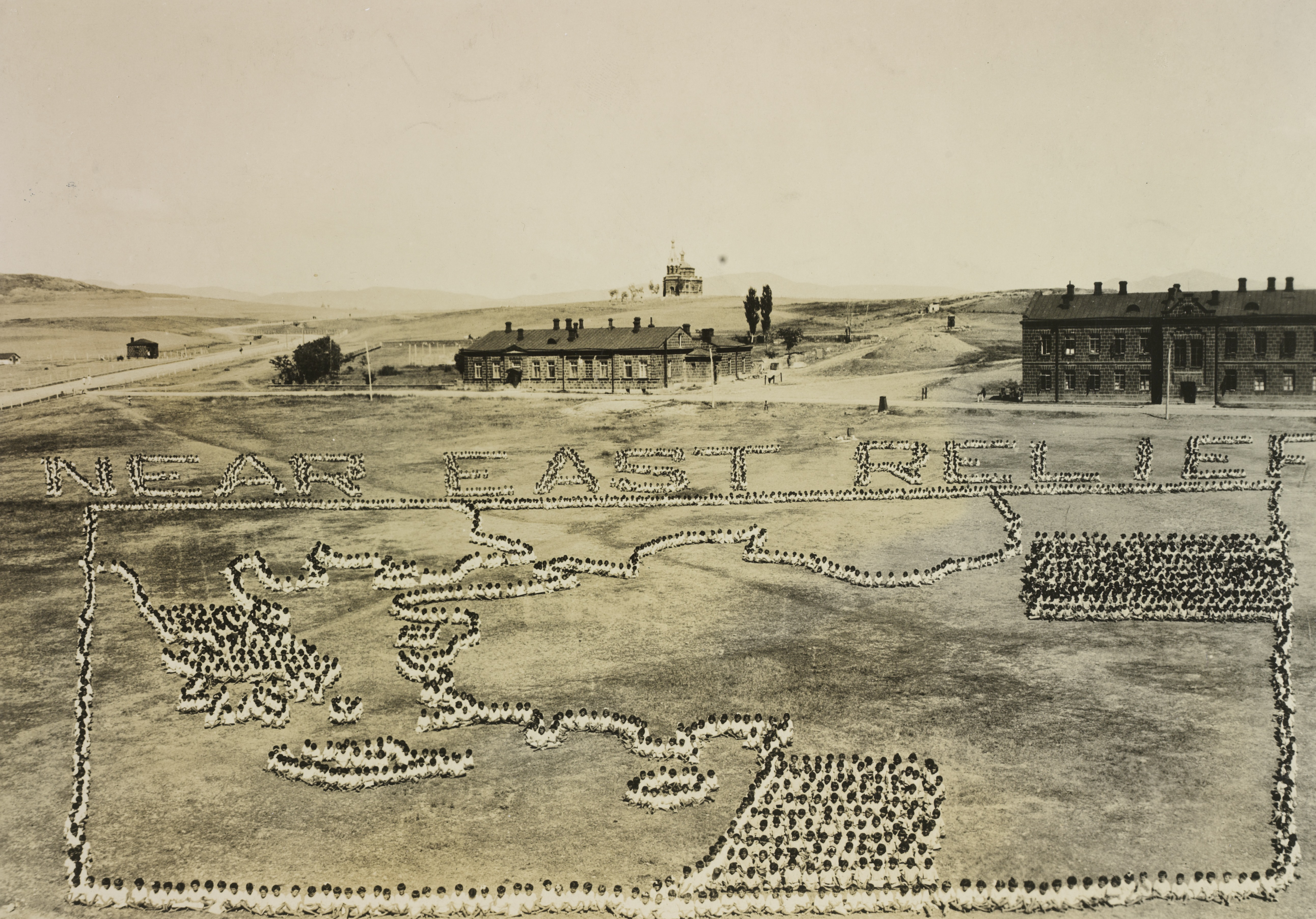 Orphaned children from the camp «Seversky Community», which was run by Near East Relief in Aleksandropol. The children are positioned in the big field, so that they form a map of the Near East, and the words NEAR EAST RELIEF. (Leninakan).